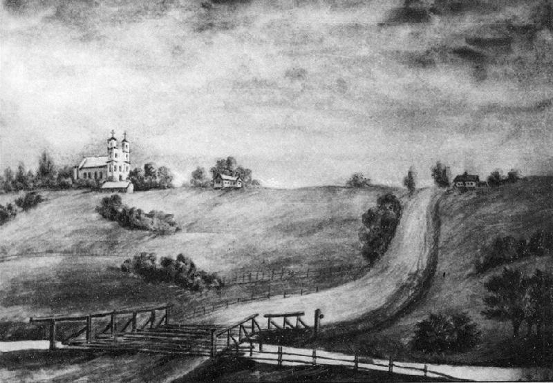 Catholic Church in Hajna, N. Orda